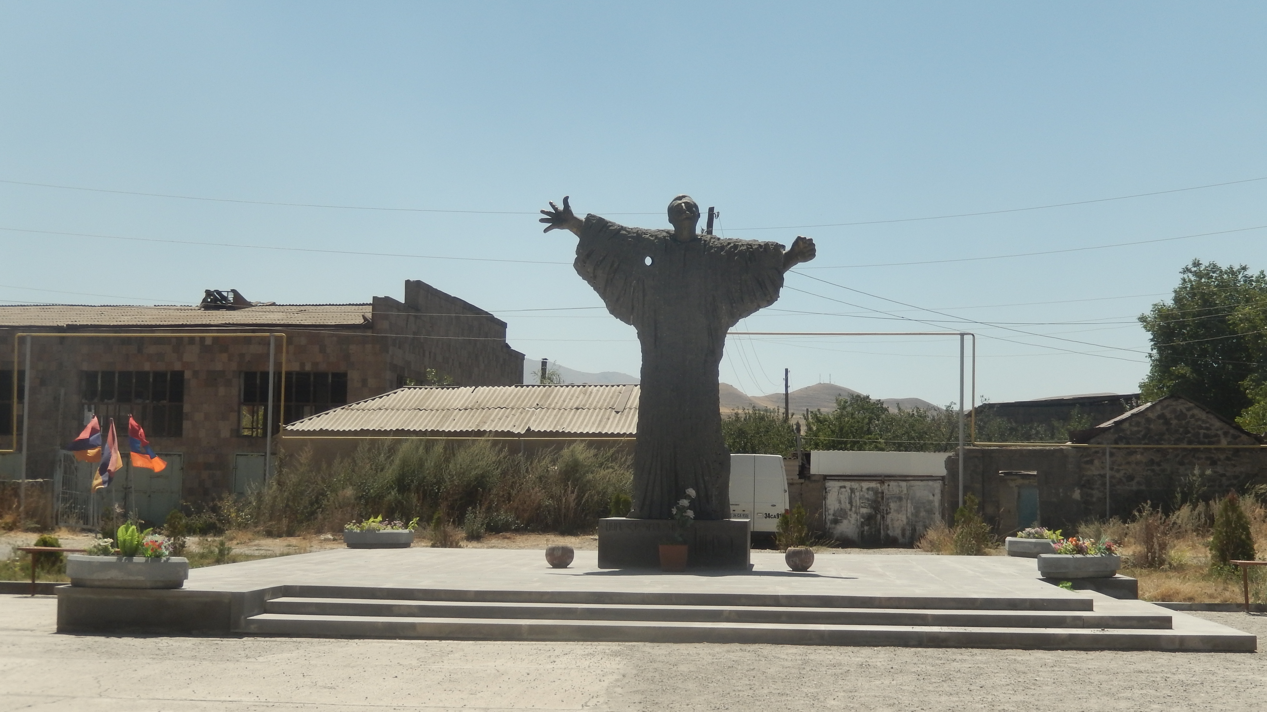 Վուրգի Հուշարձանը Սիսիանում